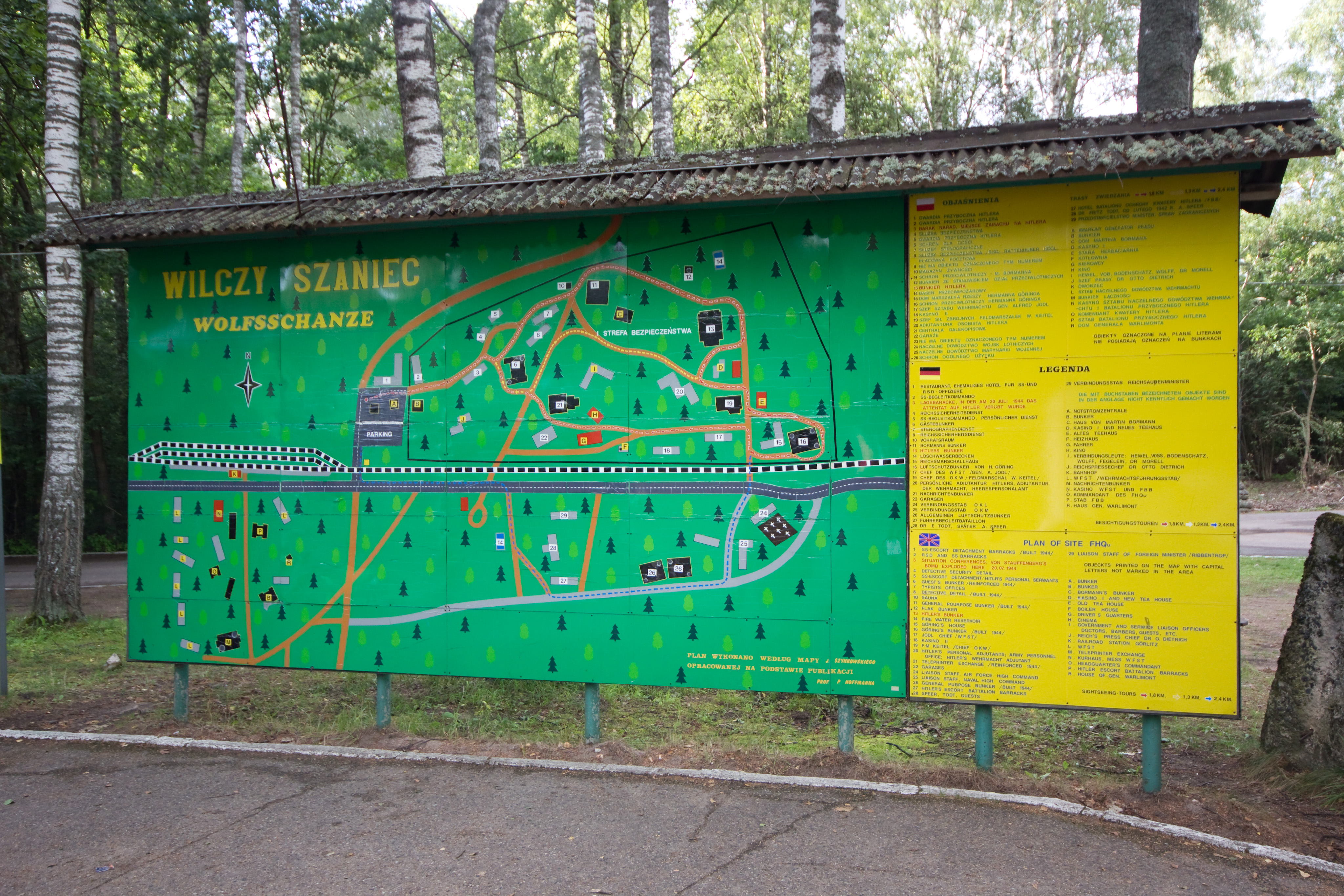 Site Plan of Command Headquarters (FHQ) "Wolfsschanze" in Gierloz near Ketrzyn, Poland